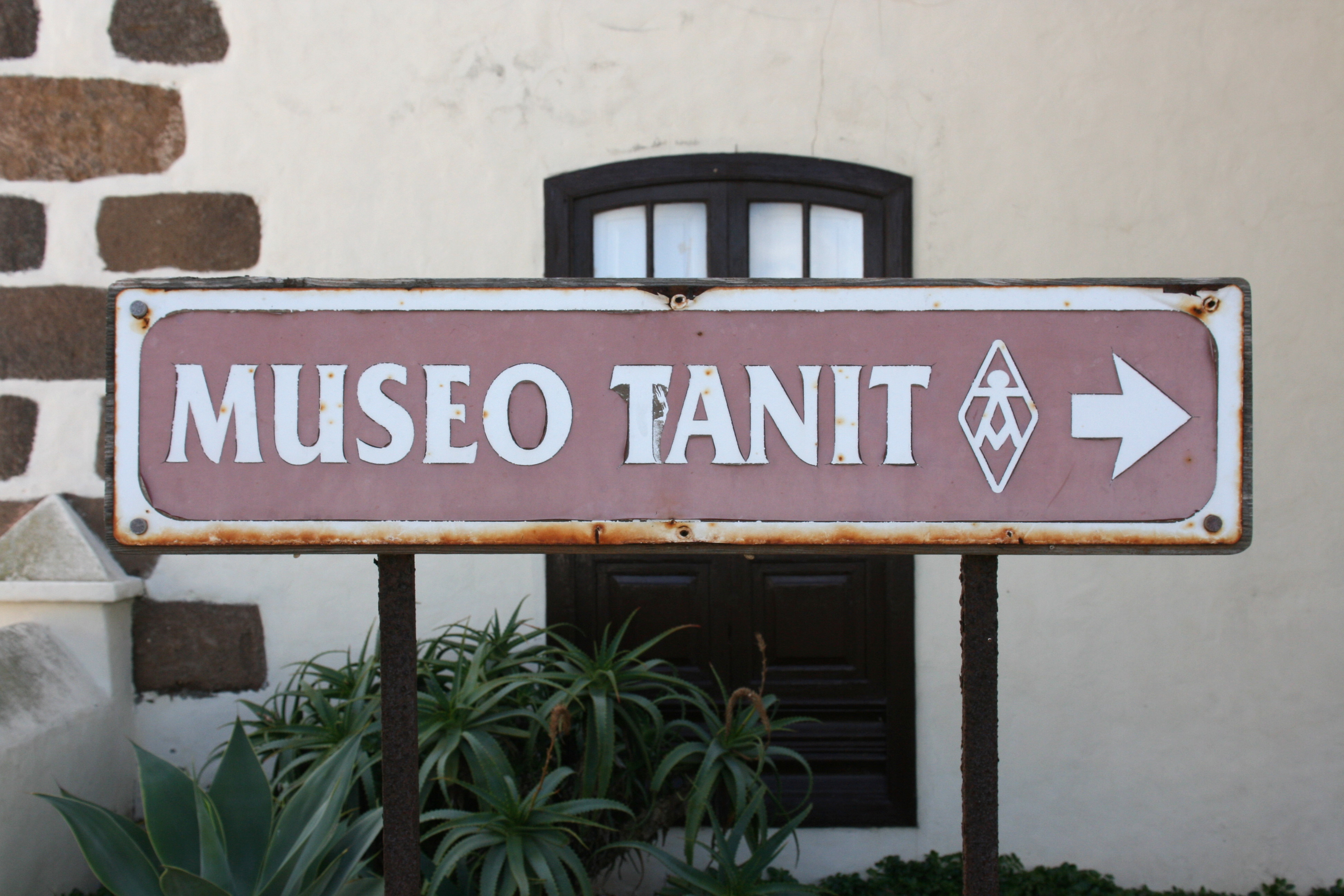 Museo Etnográfico Tanit, Calle Constitutión no. 1 in San Bartolomé, Lanzarote, Canary Islands